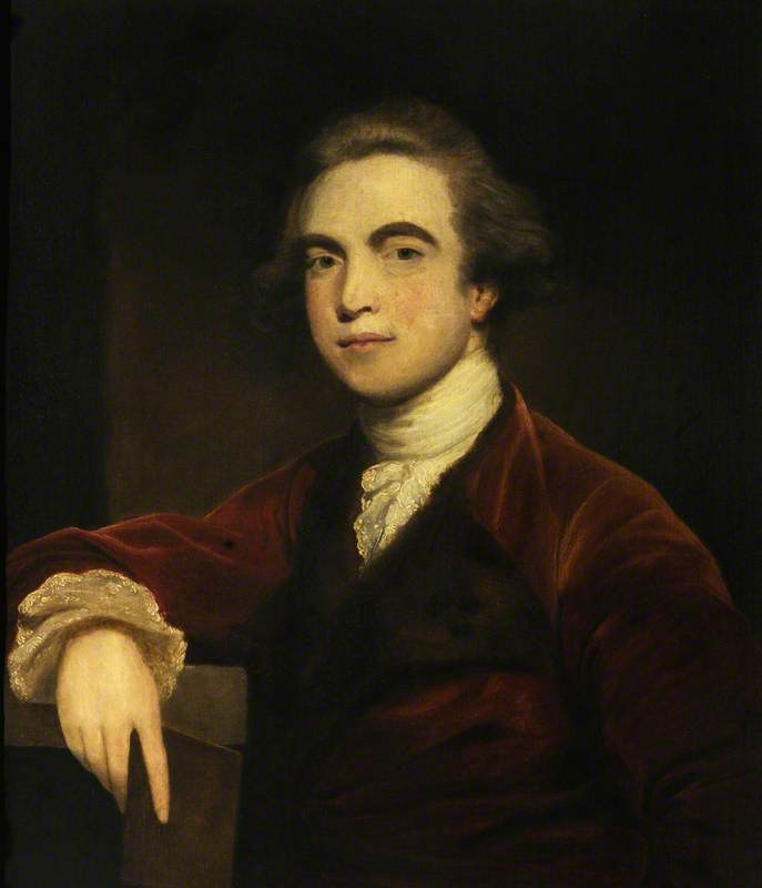 William Jones by John Linnell (1792-1882) after the original of Joshua Reynolds